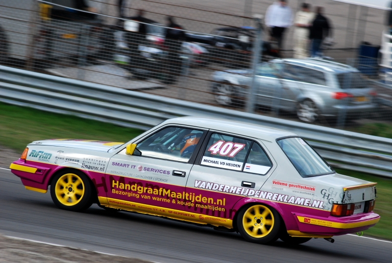 DNRT Volvo 360 cup